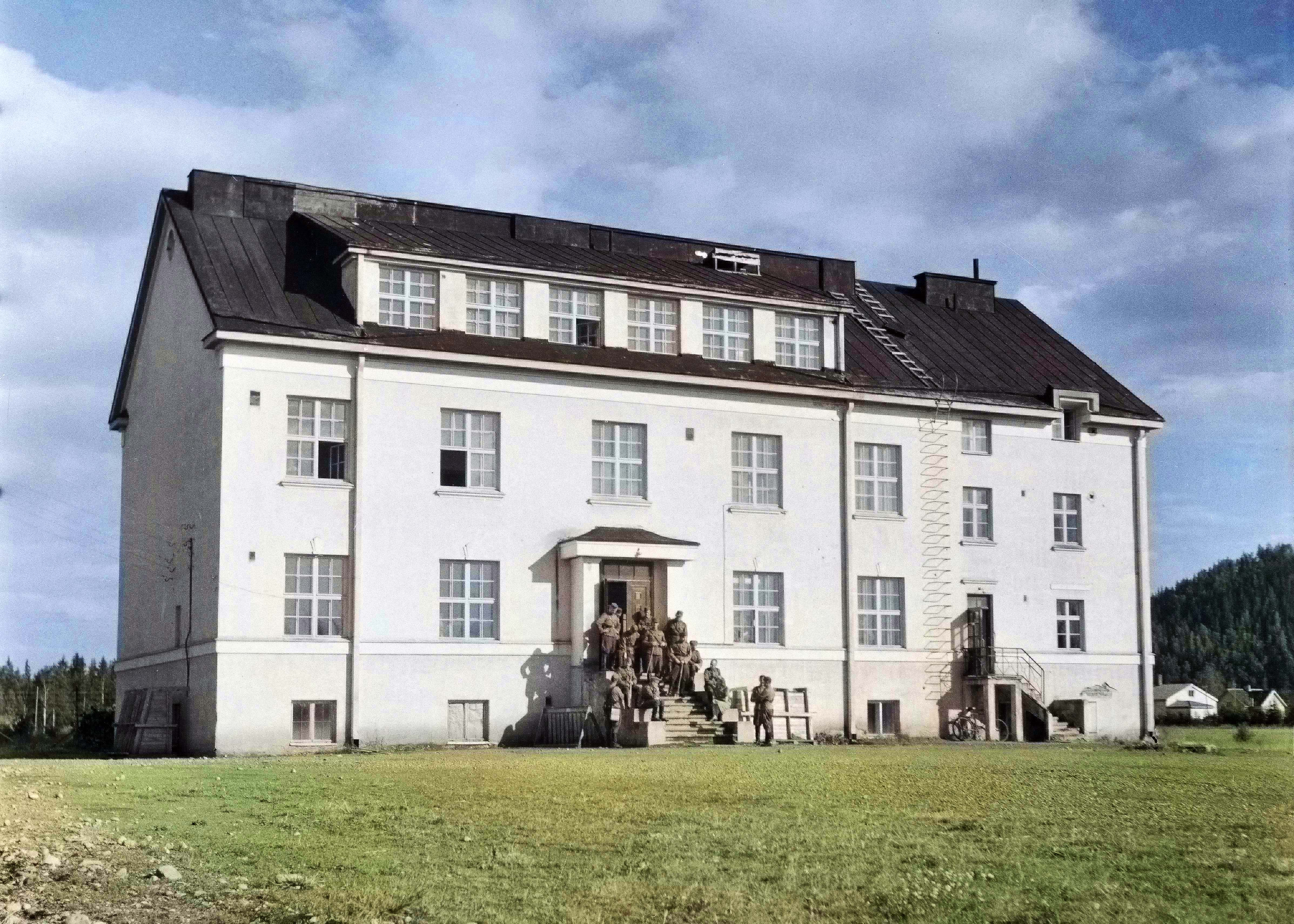 The Finnish military at the school Harlu 1944.07.20